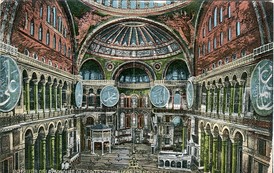 Postcard, undated ( ca.1914 ). Title: "Interior of the mosque of Saint Sophia ( Constantinople )"